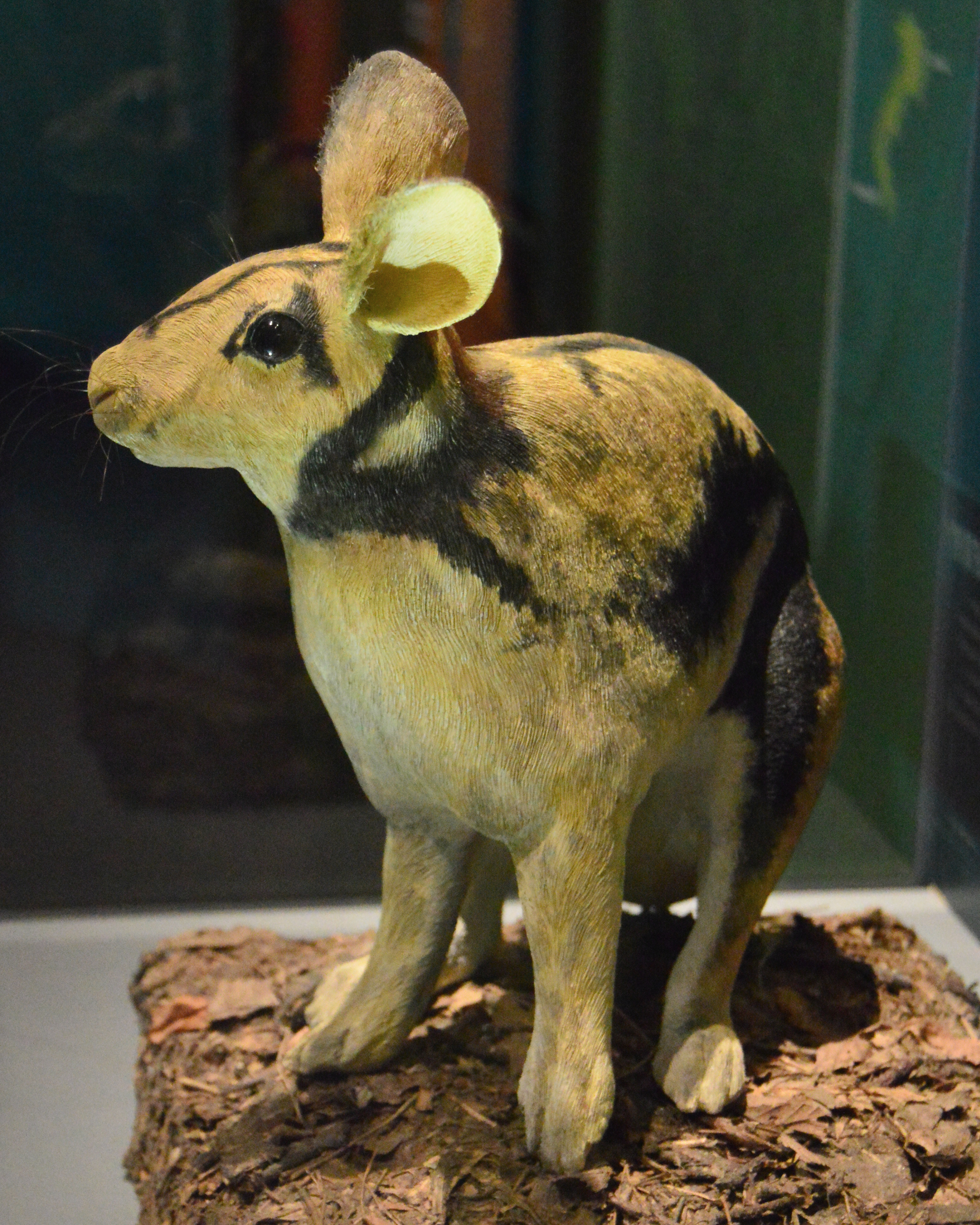 Public exhibit of a reconstruction of the Sumatran Striped Rabbit discovered in 1999.